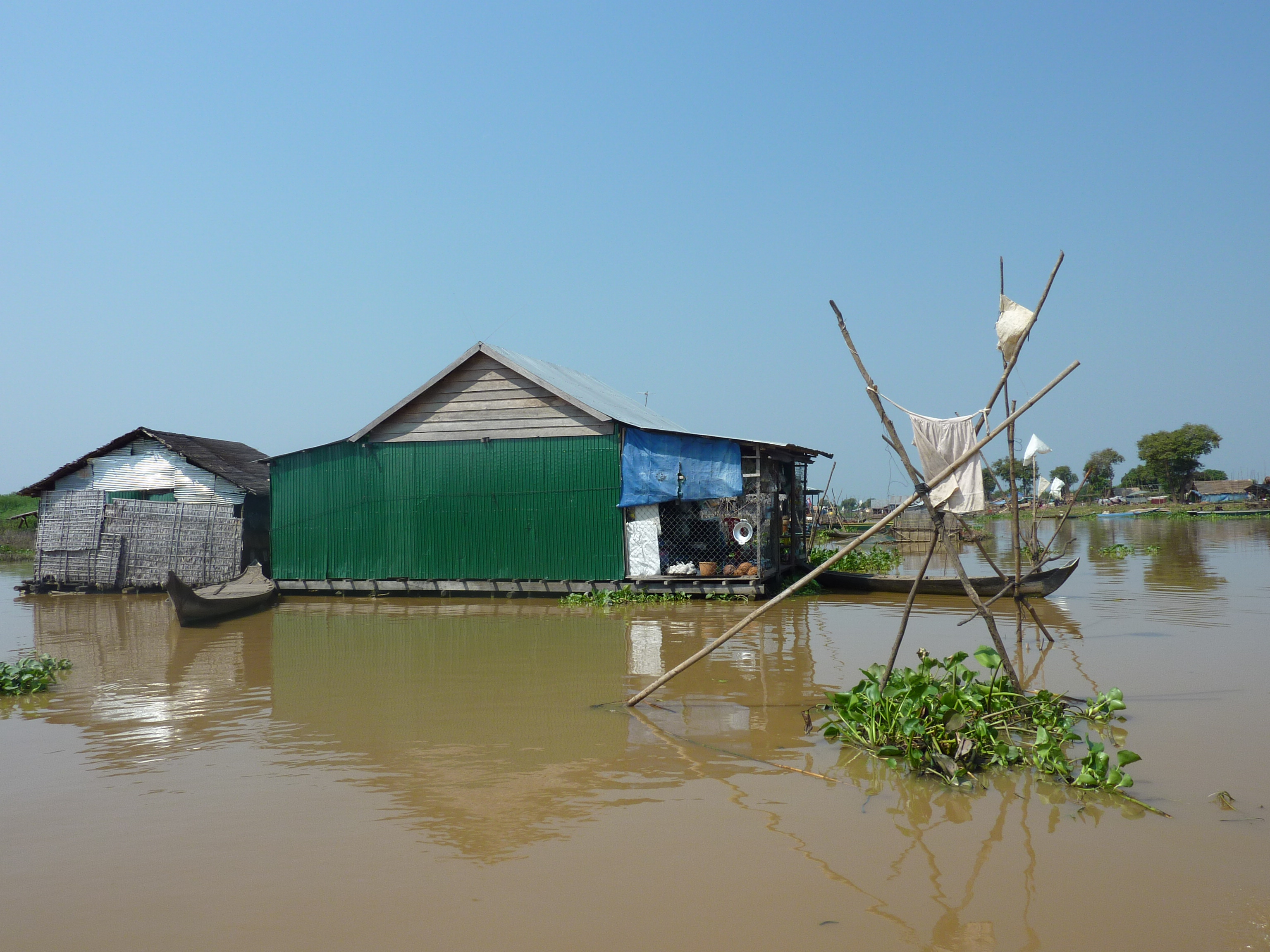 Tonle Sap: Village Scene